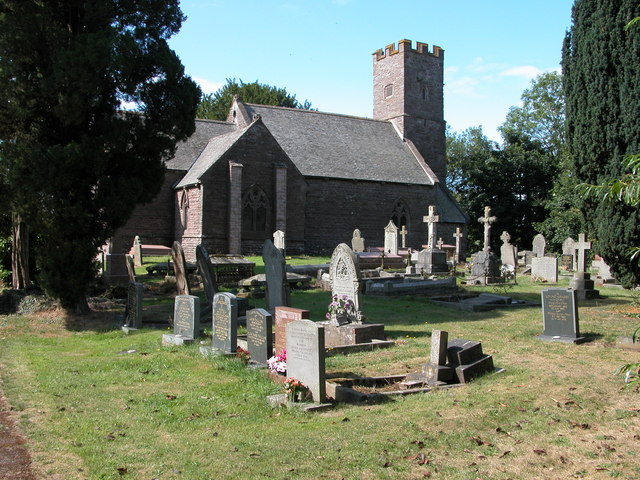 Church at Llanddewi Skirrid. The church is dedicated to St David.